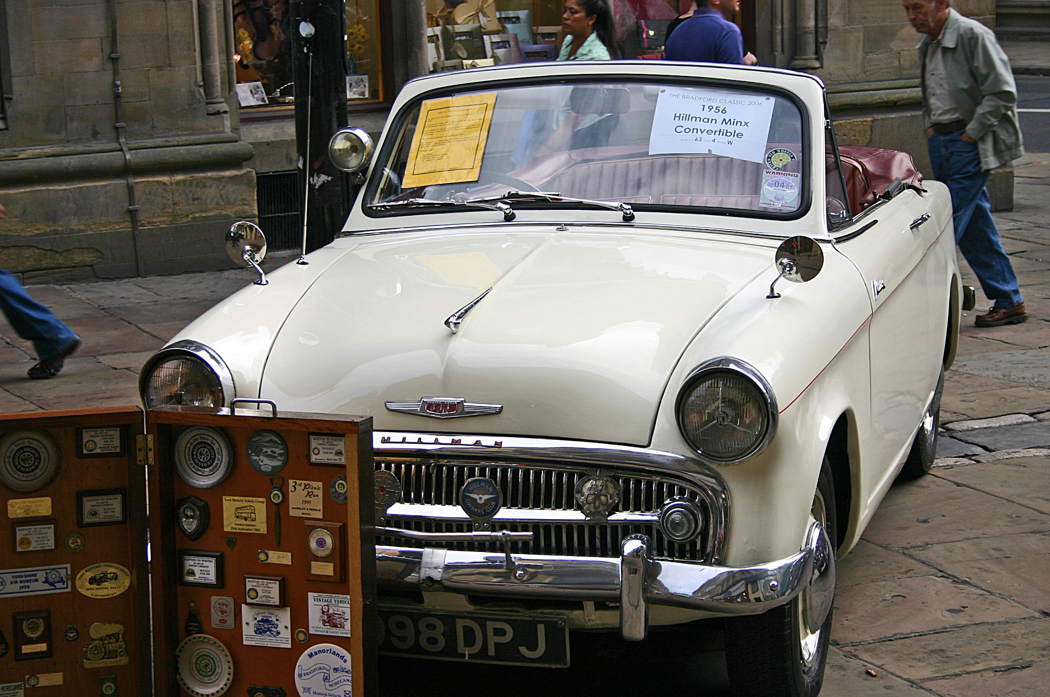 The first version of the Rootes Group "Audax" model, the Hillman Minx Series I. Subsequently produced as Singer Gazelle and Sunbeam Rapier versions (also sold as Humber Hawk 80 in some markets). Redsimon 19:23, 2 July 2007 (UTC)